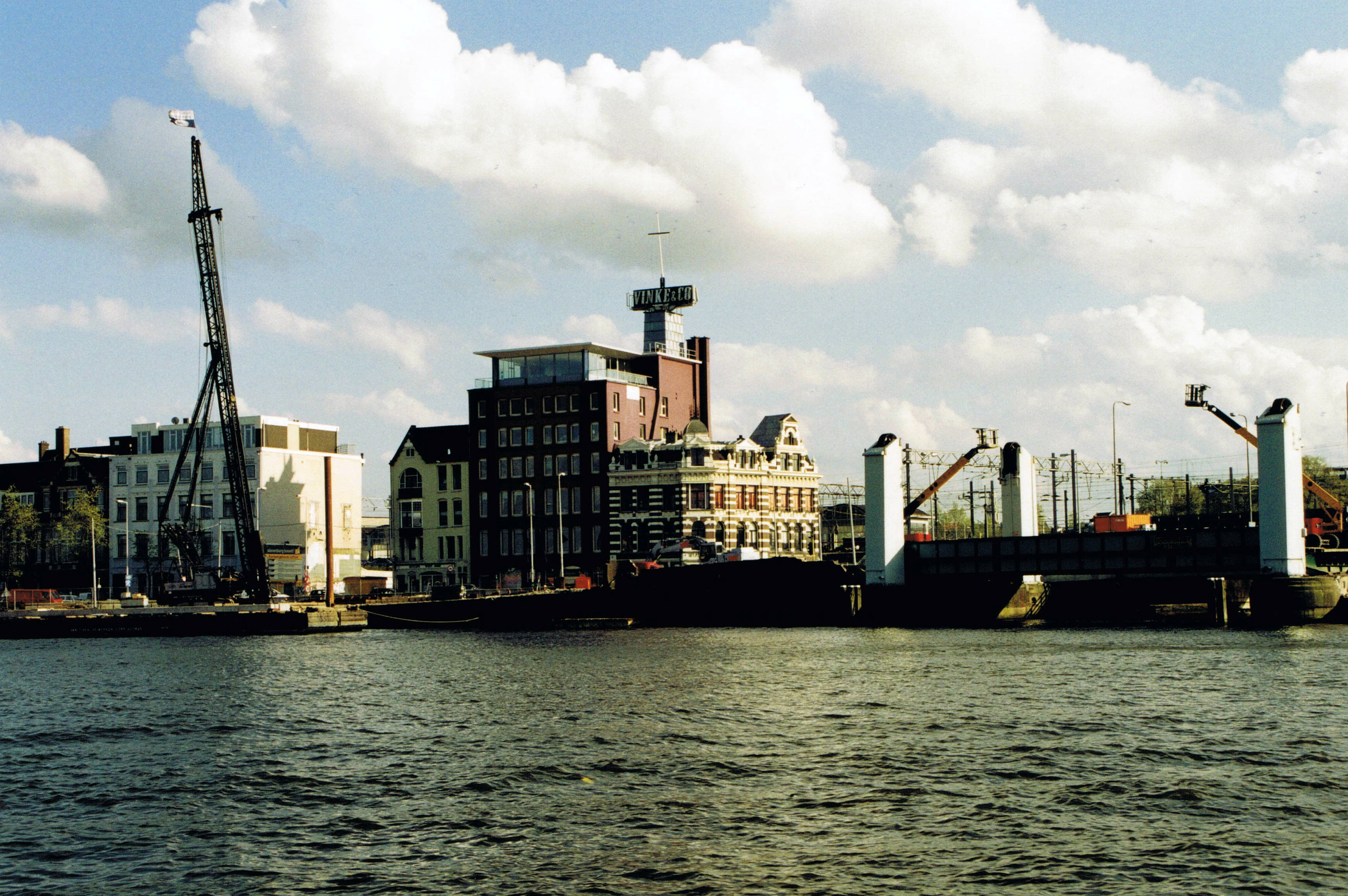 Spring 2001 in Amsterdam. On the IJ looking south. Features demolished bridge 276